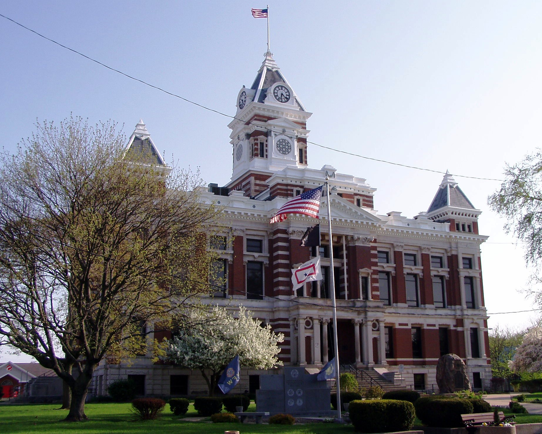 Front of the Johnson County Courthouse, located on Courthouse Square in downtown Franklin, Indiana, United States. Built in 1879, the courthouse is part of two historic districts that are listed on the National Register of Historic Places: the Johnson County Courthouse Square and the Franklin Commercial Historic District.